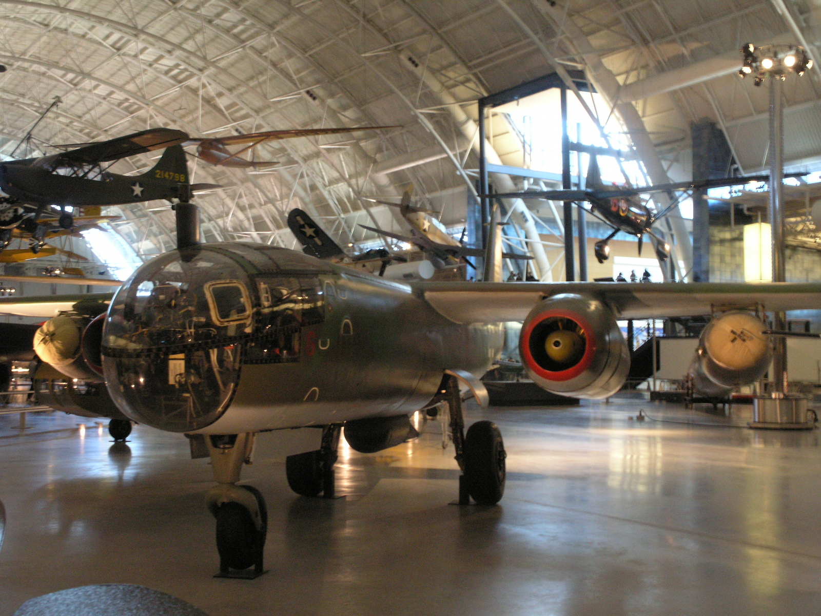 Arado 234 'Blitz' with RATO unit(s) - the world's first jet bomber. Only surviving aircraft.